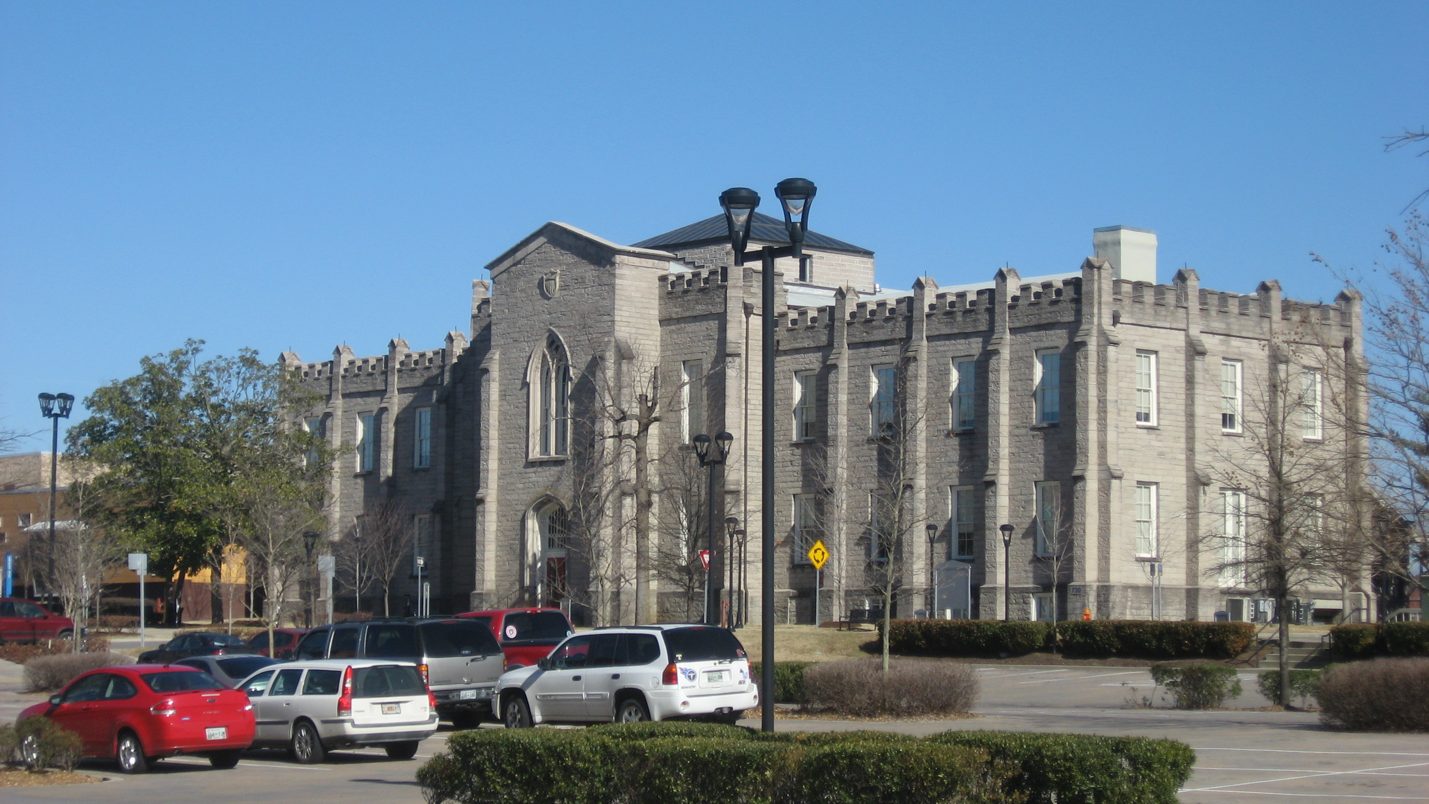 Front and southern end of the Nashville Children's Museum, located at 724 Second Avenue South in Nashville, Tennessee, United States. Built in 1853 and used as a Civil War hospital, it was long known as "Lindsley Hall" while a building for the University of Nashville. No longer used as a museum building, it is listed on the National Register of Historic Places.